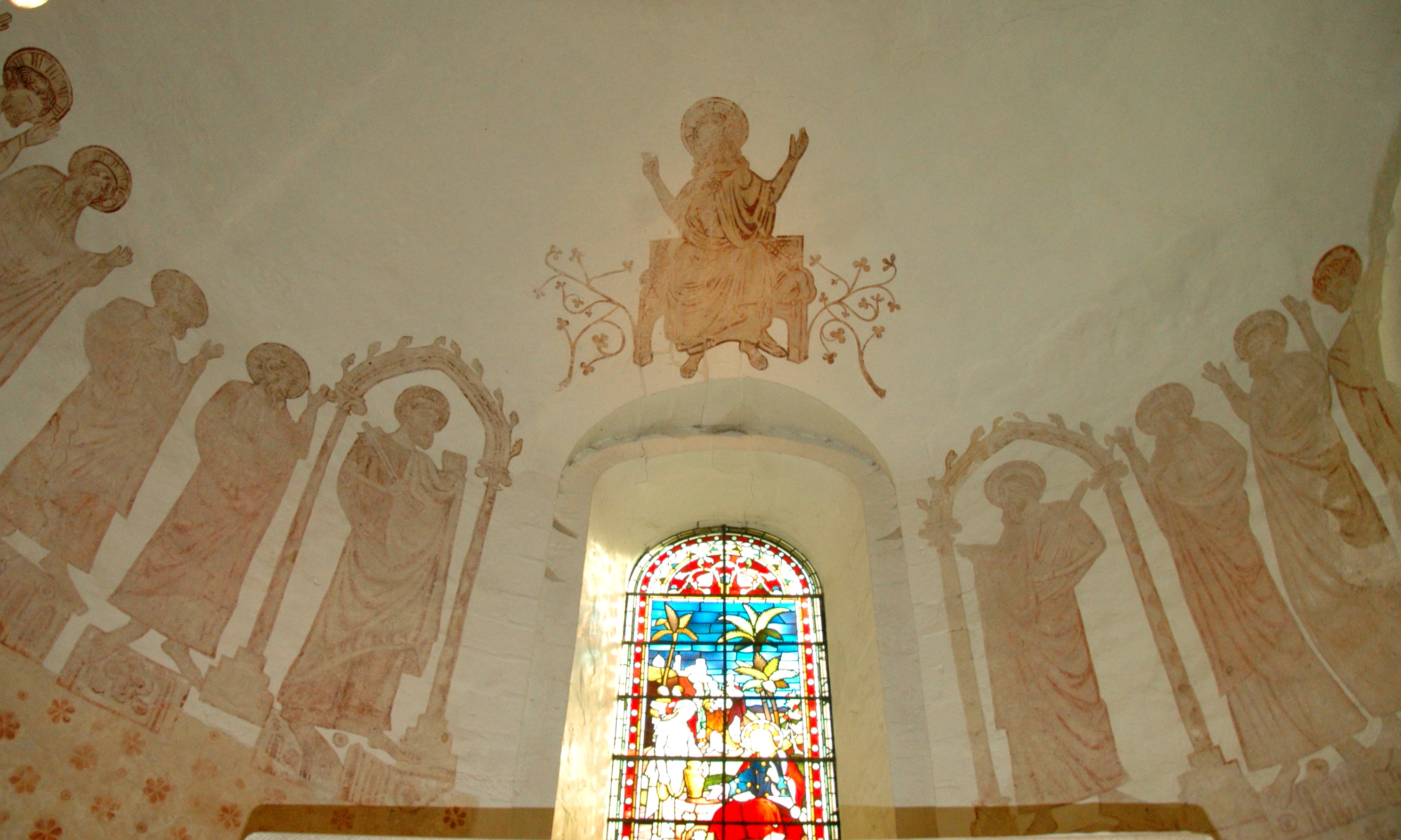 Church of England parish church of Saints Peter and Paul, Checkendon, Oxfordshire